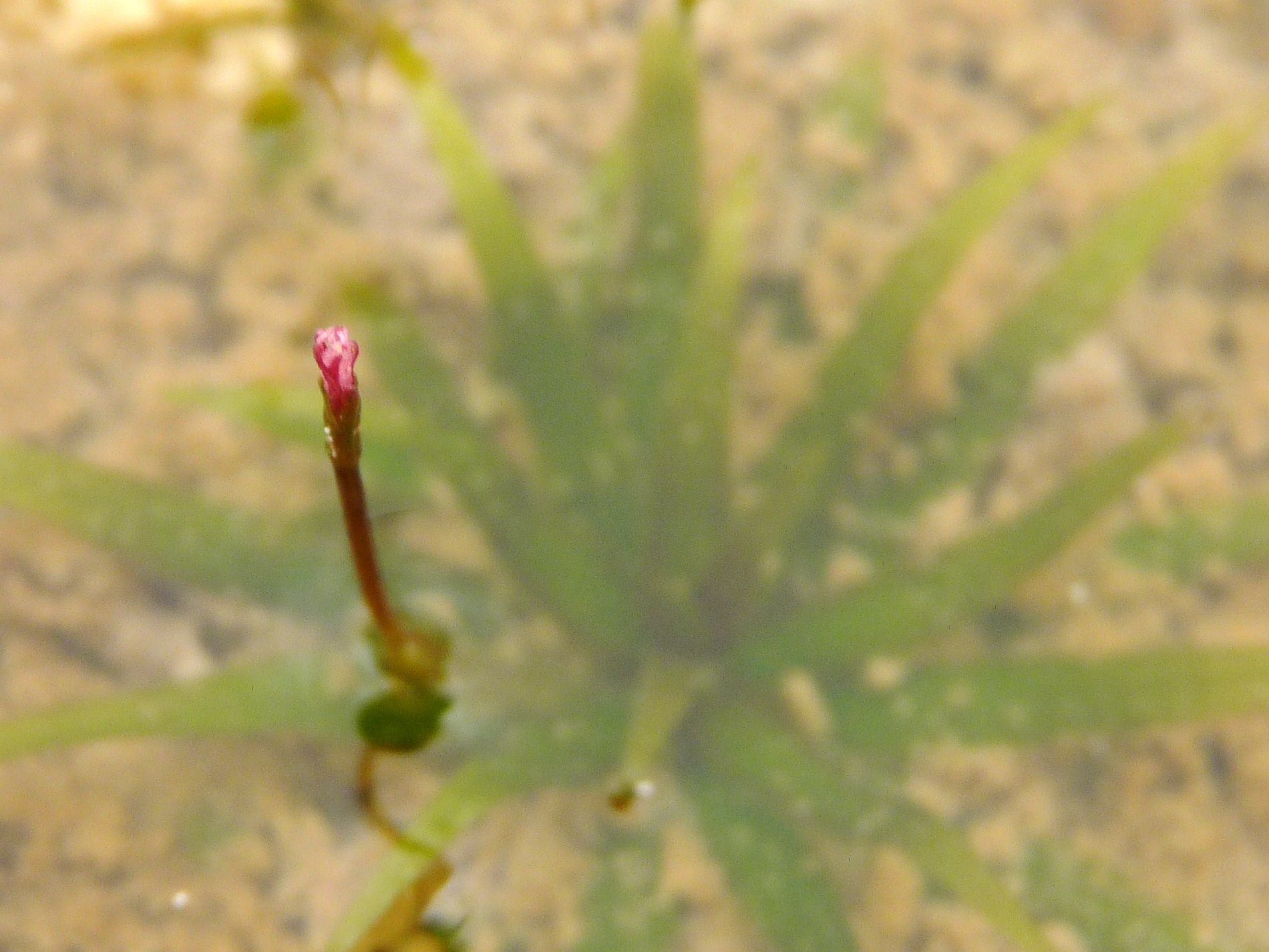 Pink flower of Blyxa echinosperma